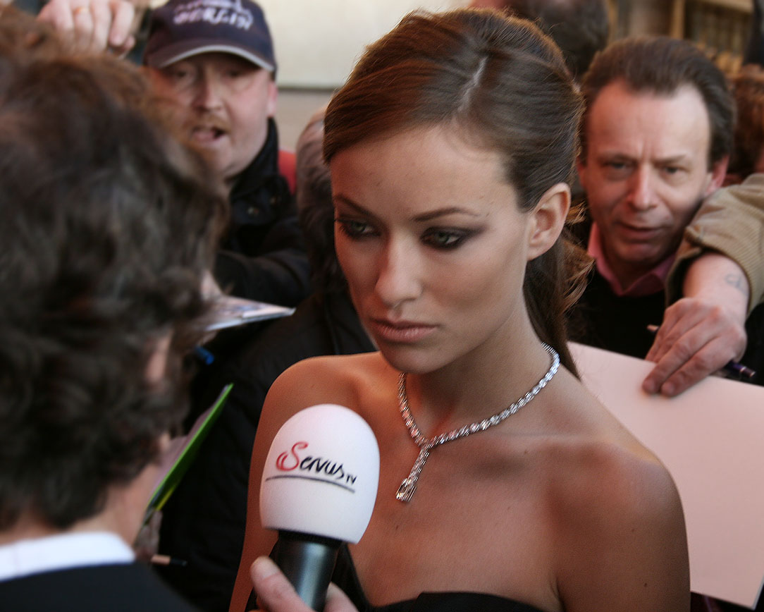 Olivia Wilde at the Romy TV awards (Hofburg Imperial Palace in Vienna)